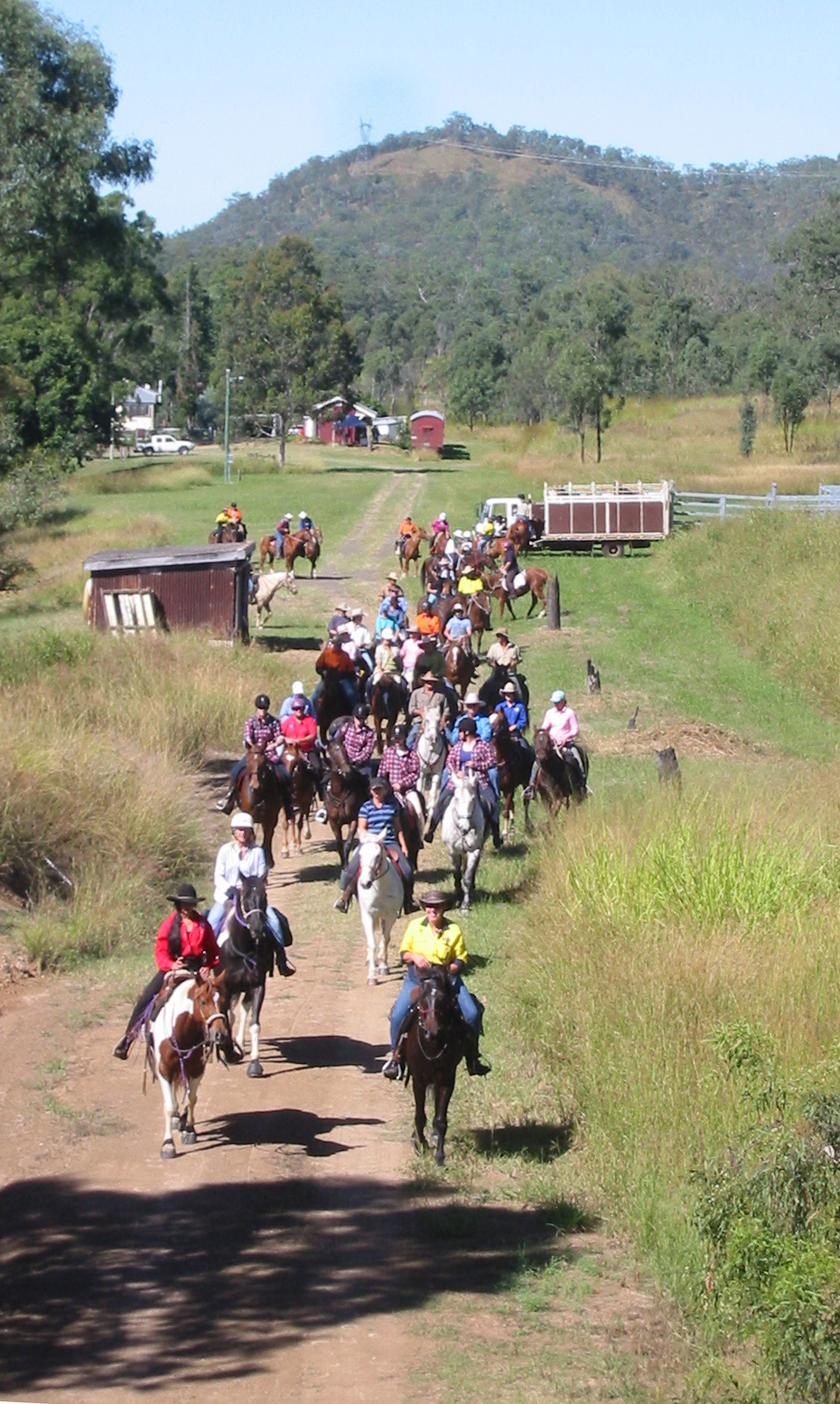 A group of ATHRA riders leaving Linville Station on their way up the Brisbane Valley Rail Trail to Benarkin in May 2010.